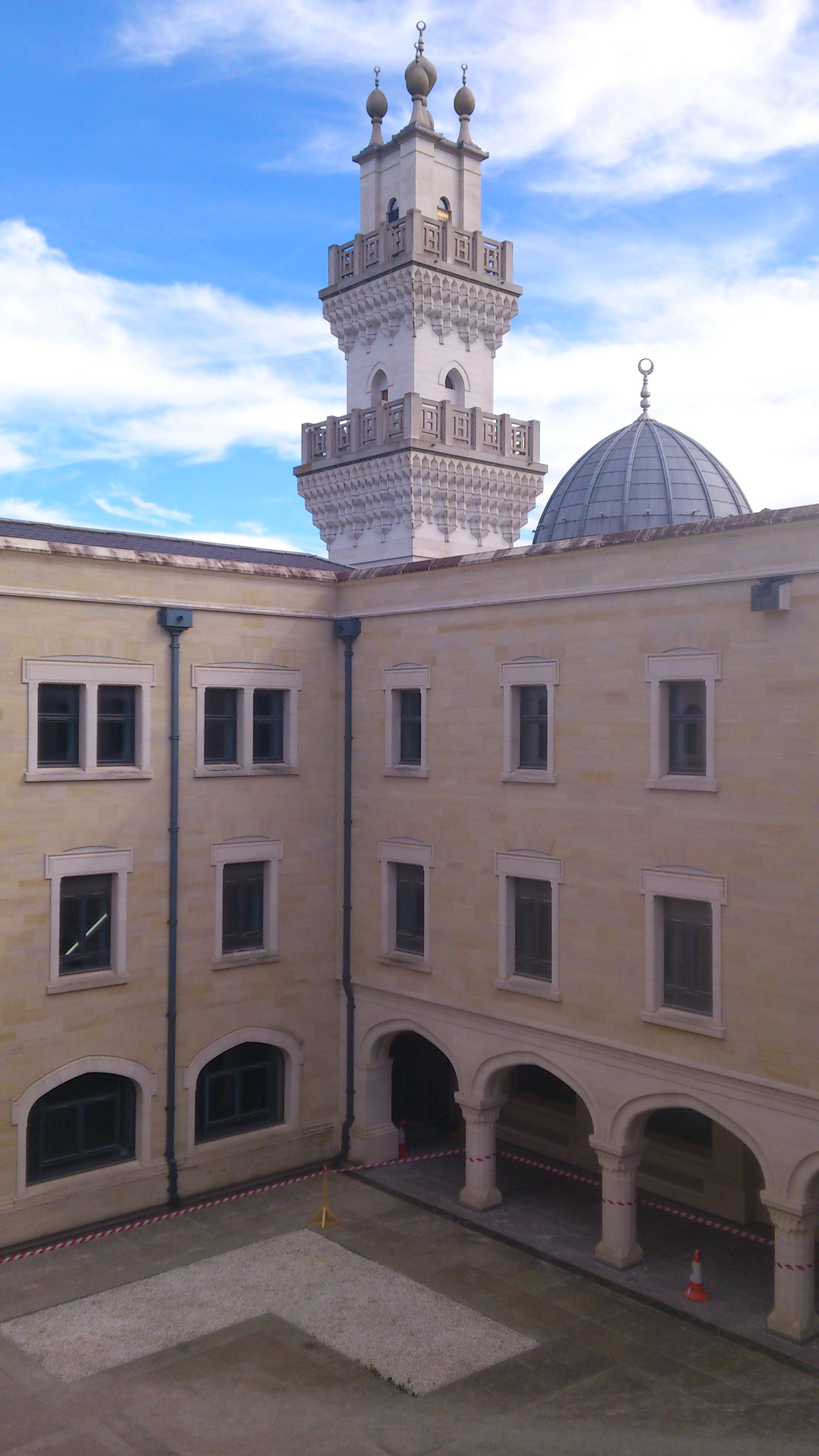 Part of the Oxford Centre for Islamic Studies, Marston Road, Oxford